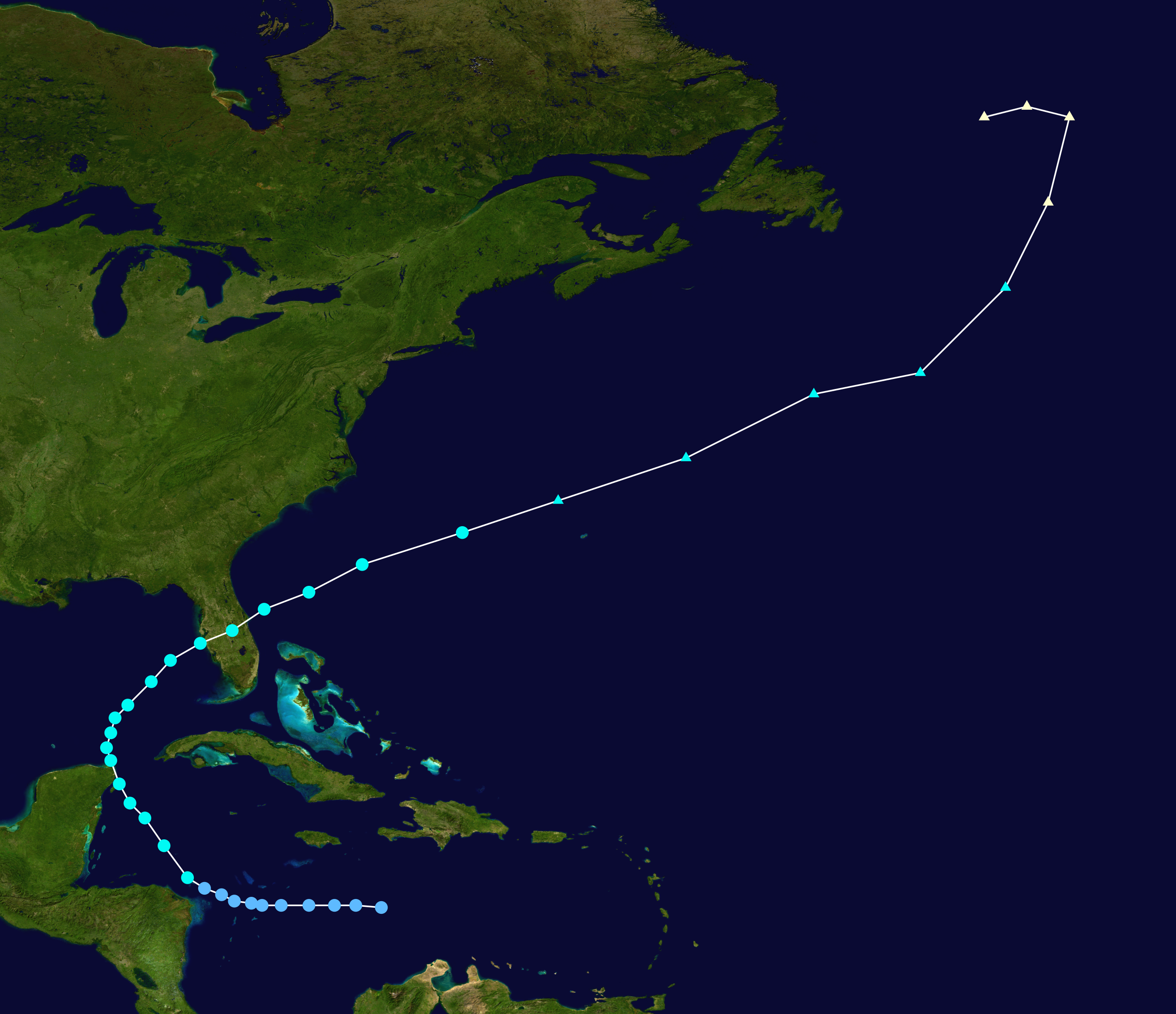 Tropical Storm Keith (1988) track. Uses the color scheme from the Saffir-Simpson Hurricane Scale.